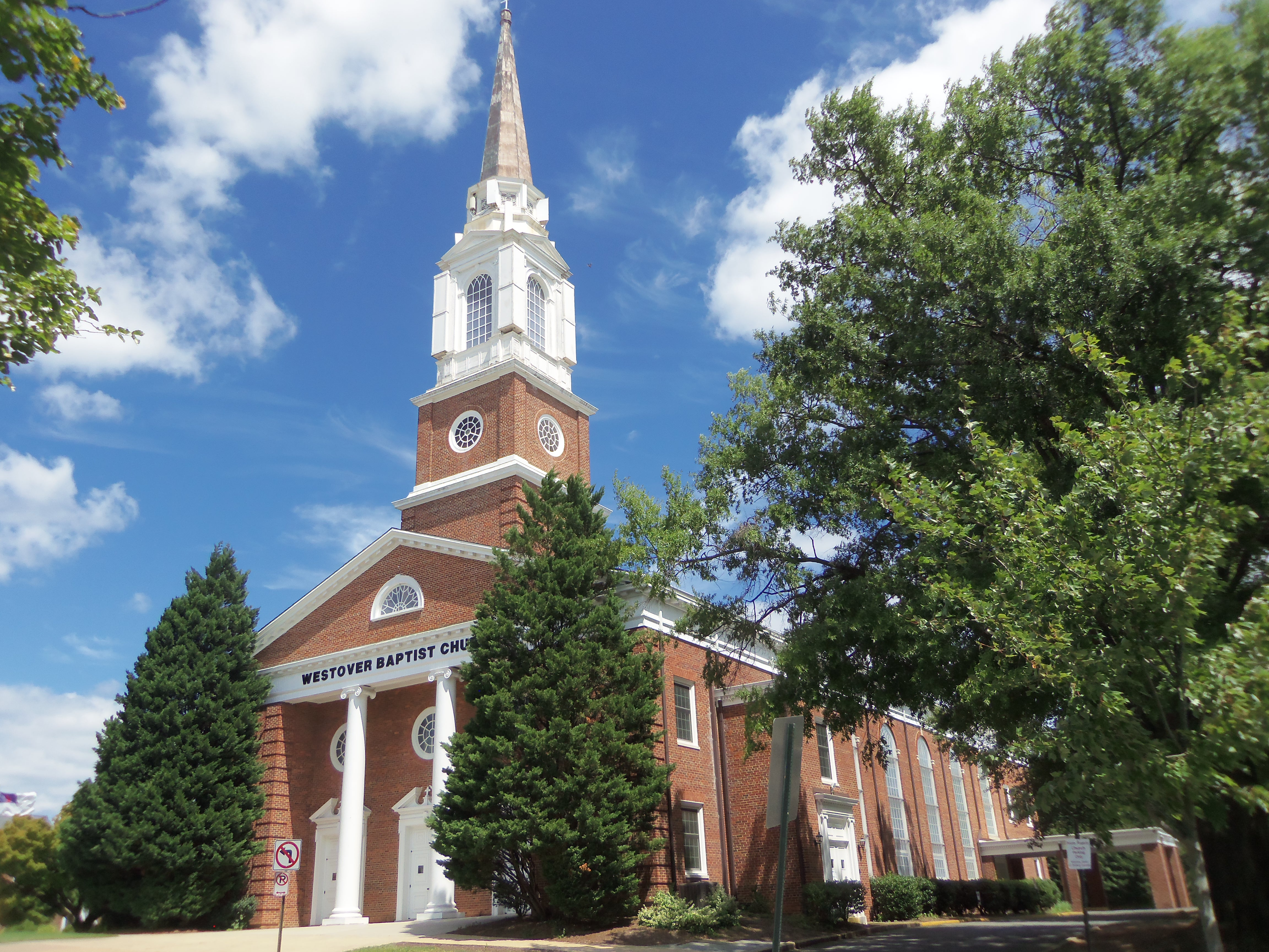 Westover Baptist Church in Arlington County, Virginia. It is a contributing property in the Westover Historic District on the National Register of Historic Places.